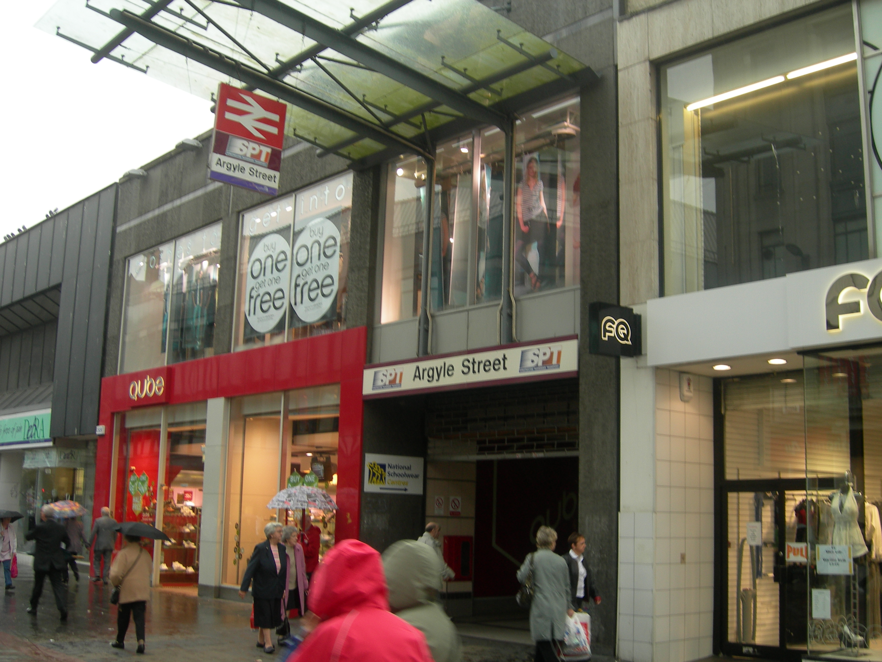 Argyle Street railway station exterior, Glasgow, September 2006. (photo by Nach0king)